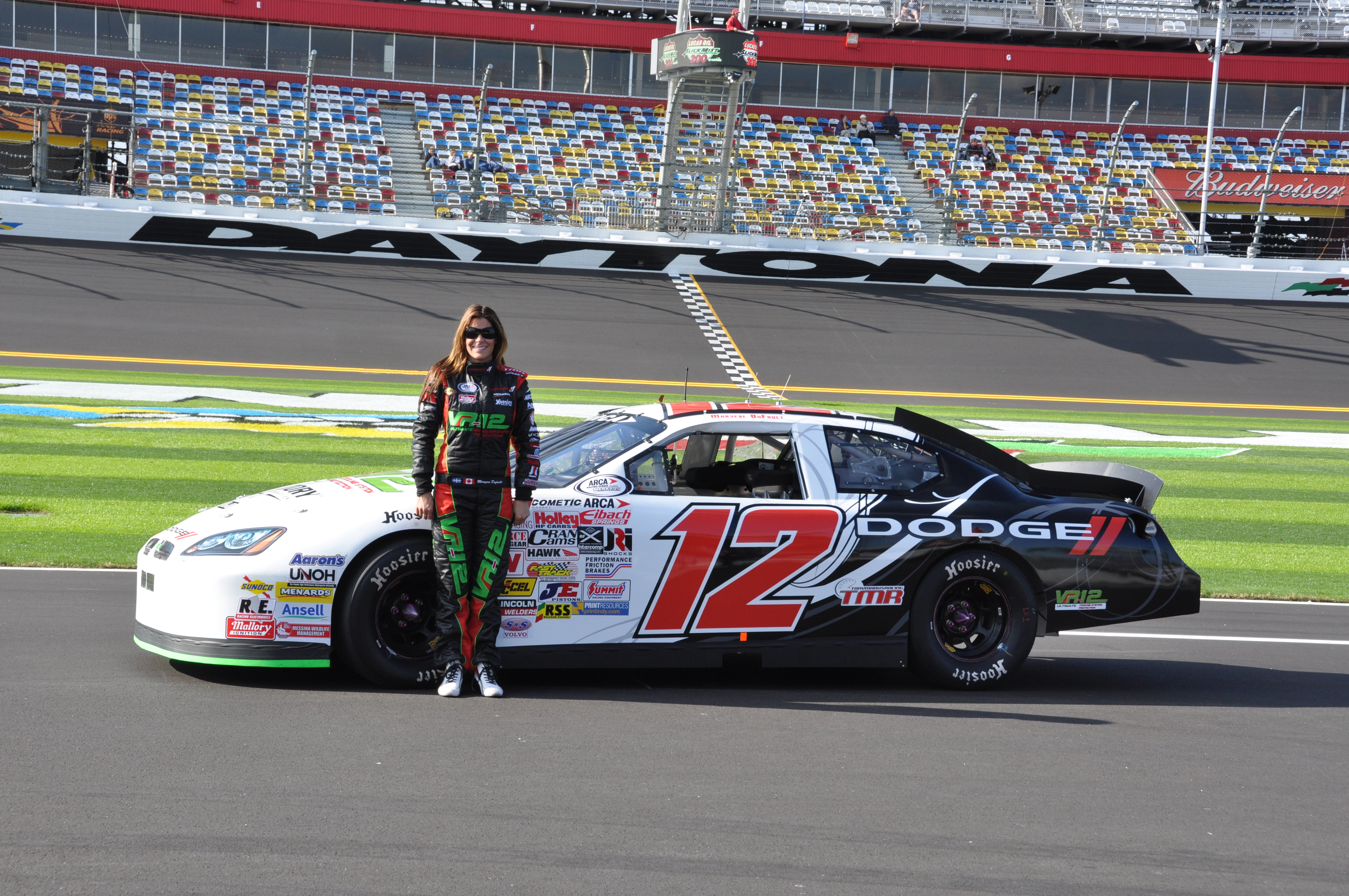 ARCA driver Maryeve Dufault posing for photographers at Daytona International Speedway before their 2011 race.